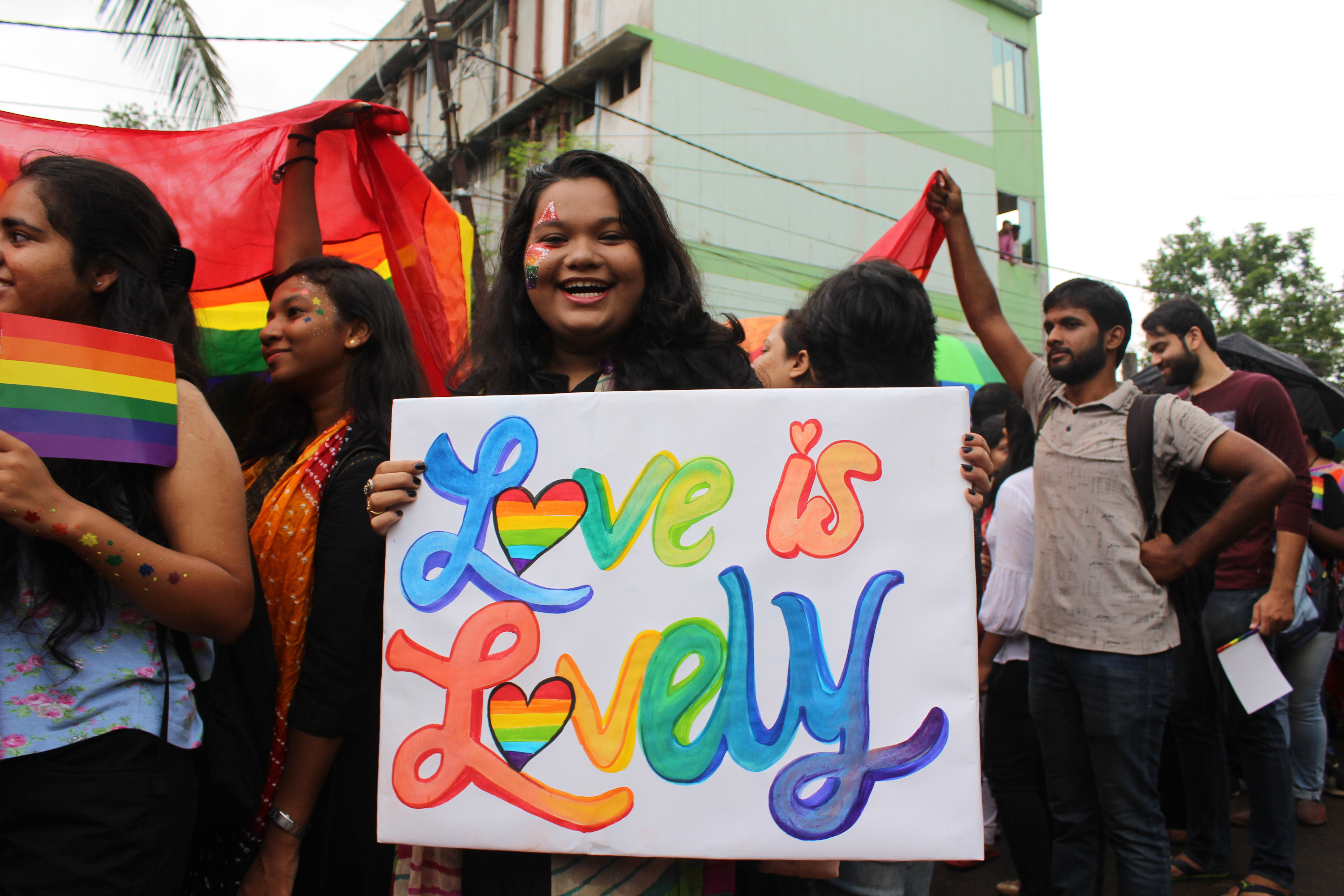 Participants or posters from Bhubaneswar Pride Parade 2019